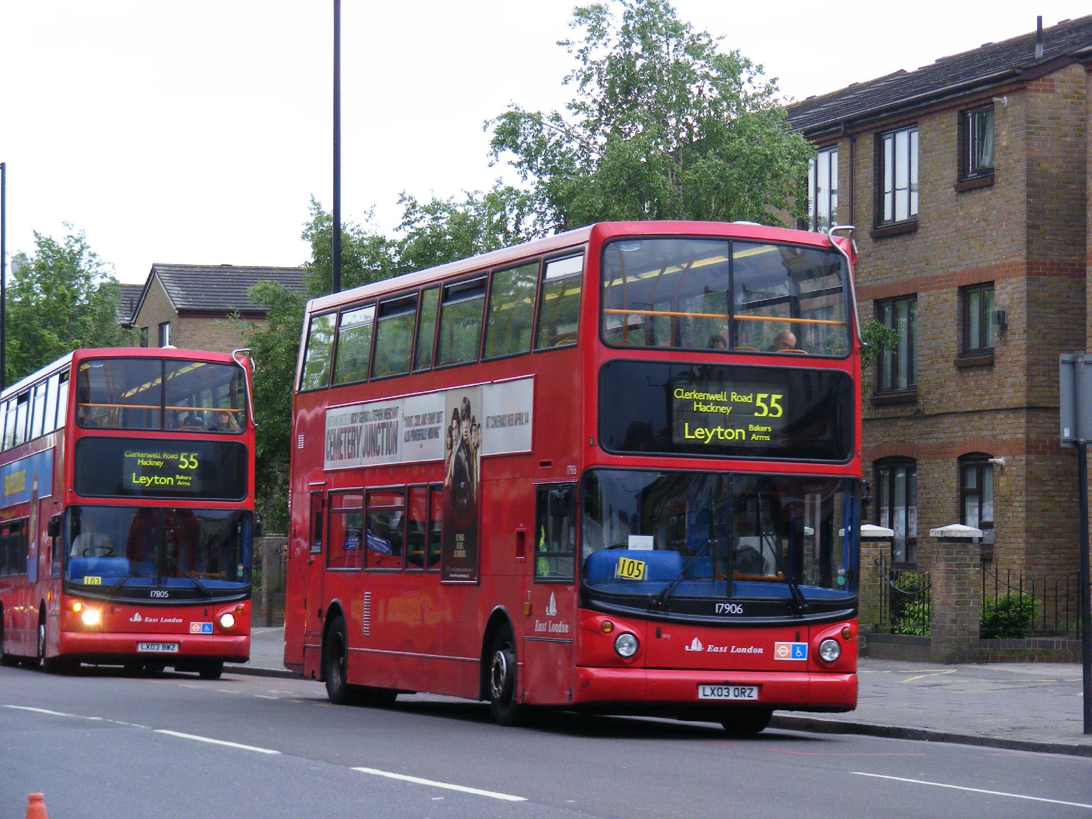 Scania Omnicity buses are even appearing on the 55 route from Leyton Garage. Older Transbus Trident vehicles are still the mainstay for the moment. 17906 was until recently working in South-East London with Selkent.